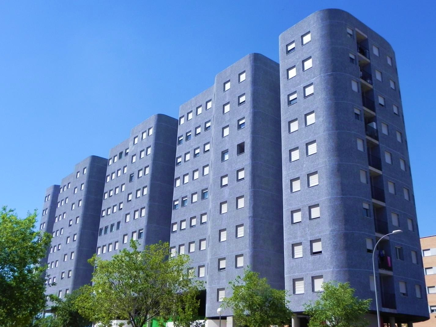 Façade of Vallecas 23 building in Madrid (Spain).